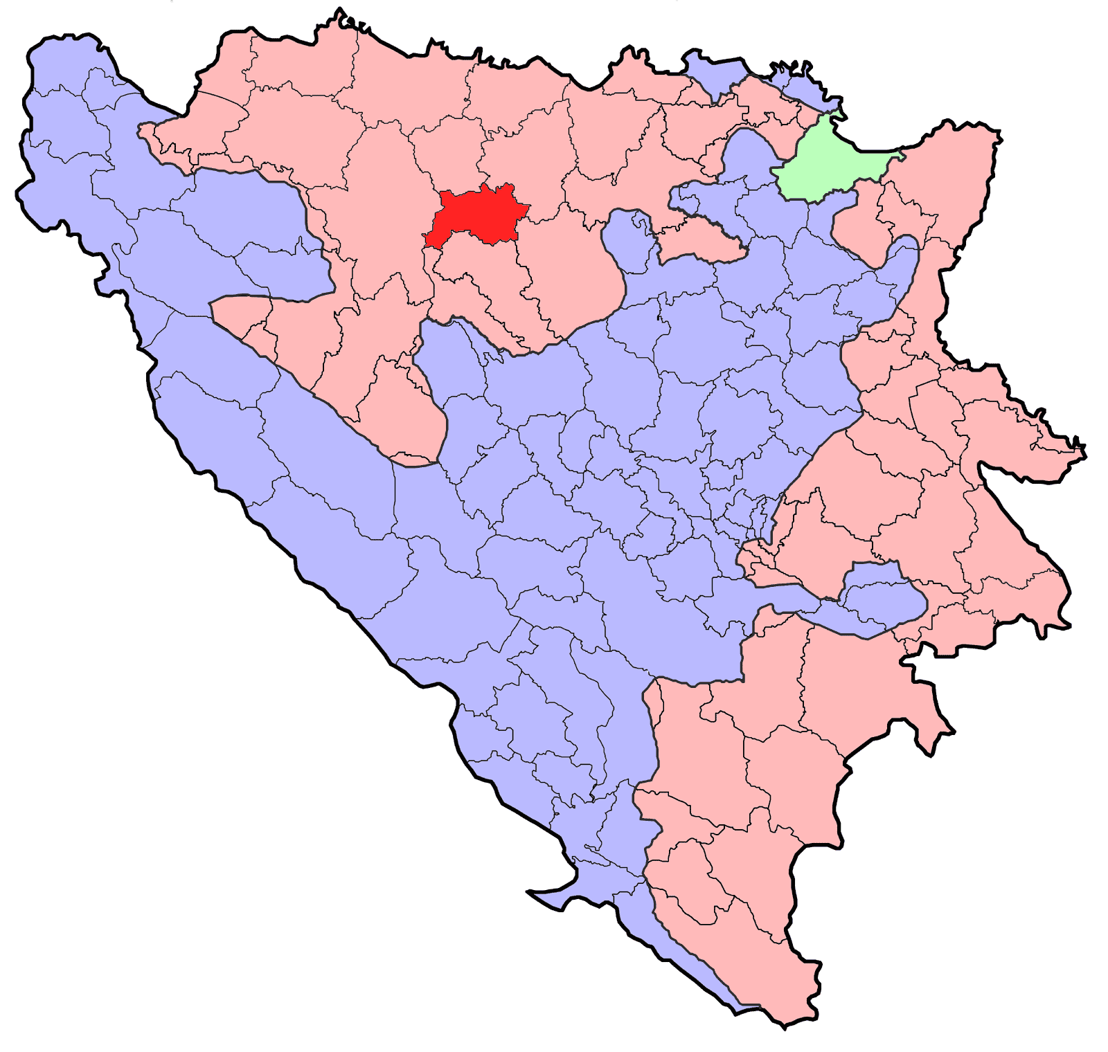 Location of Čelinac municipality in Bosnia and Herzegovina.